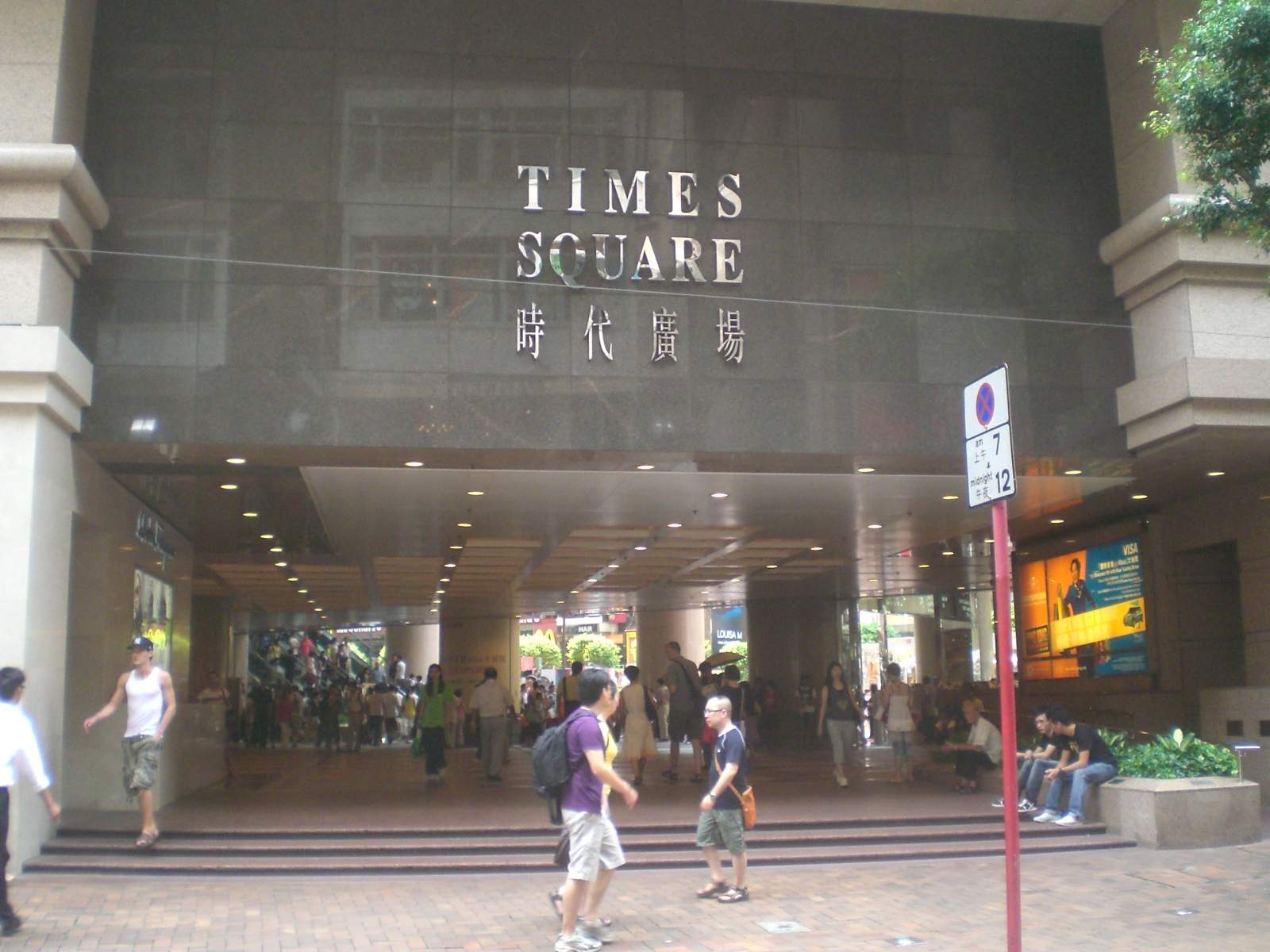 銅鑼灣勿地臣街 時代廣場 (香港)